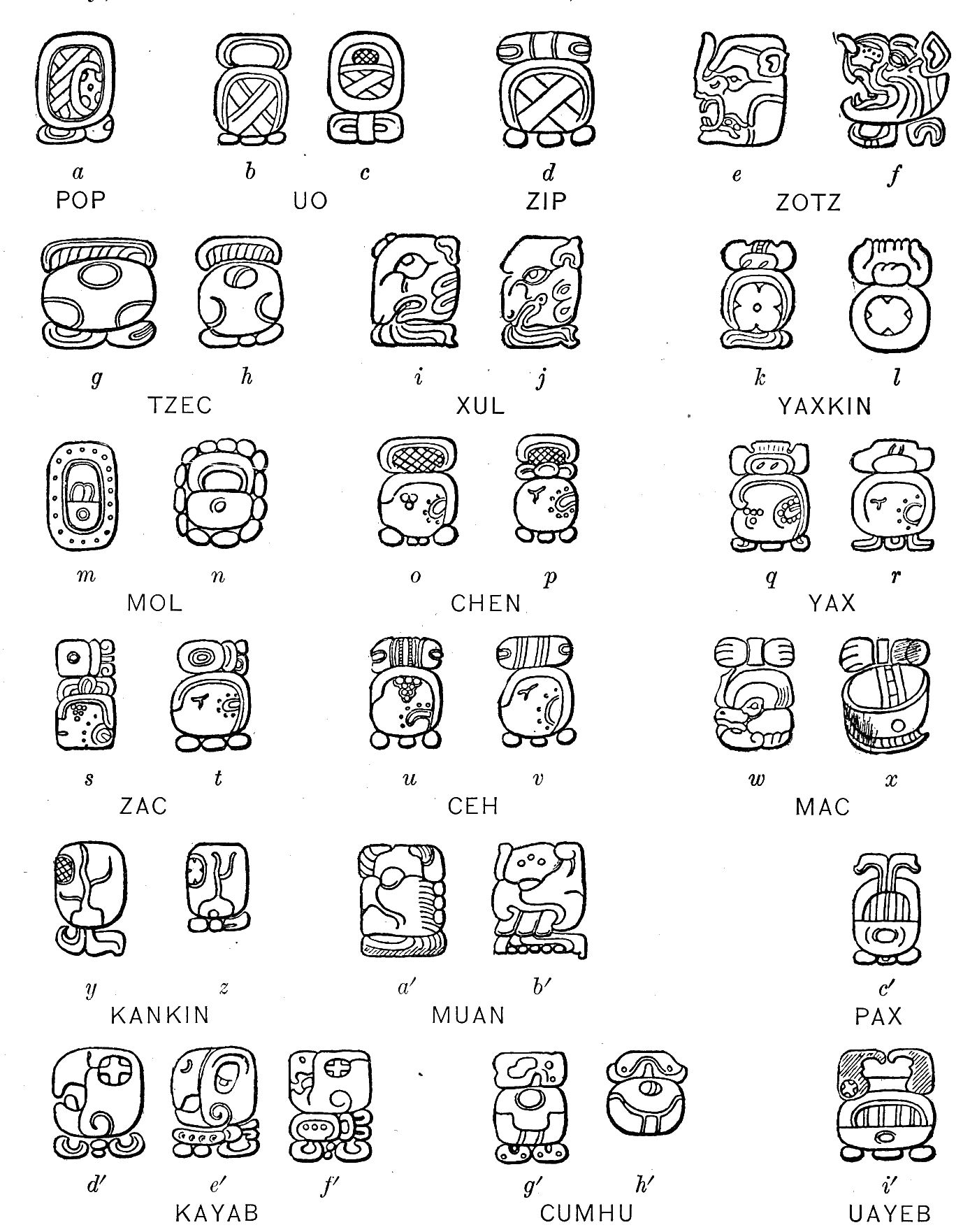 The month signs in the inscriptions (see Wikisource usage for further information).